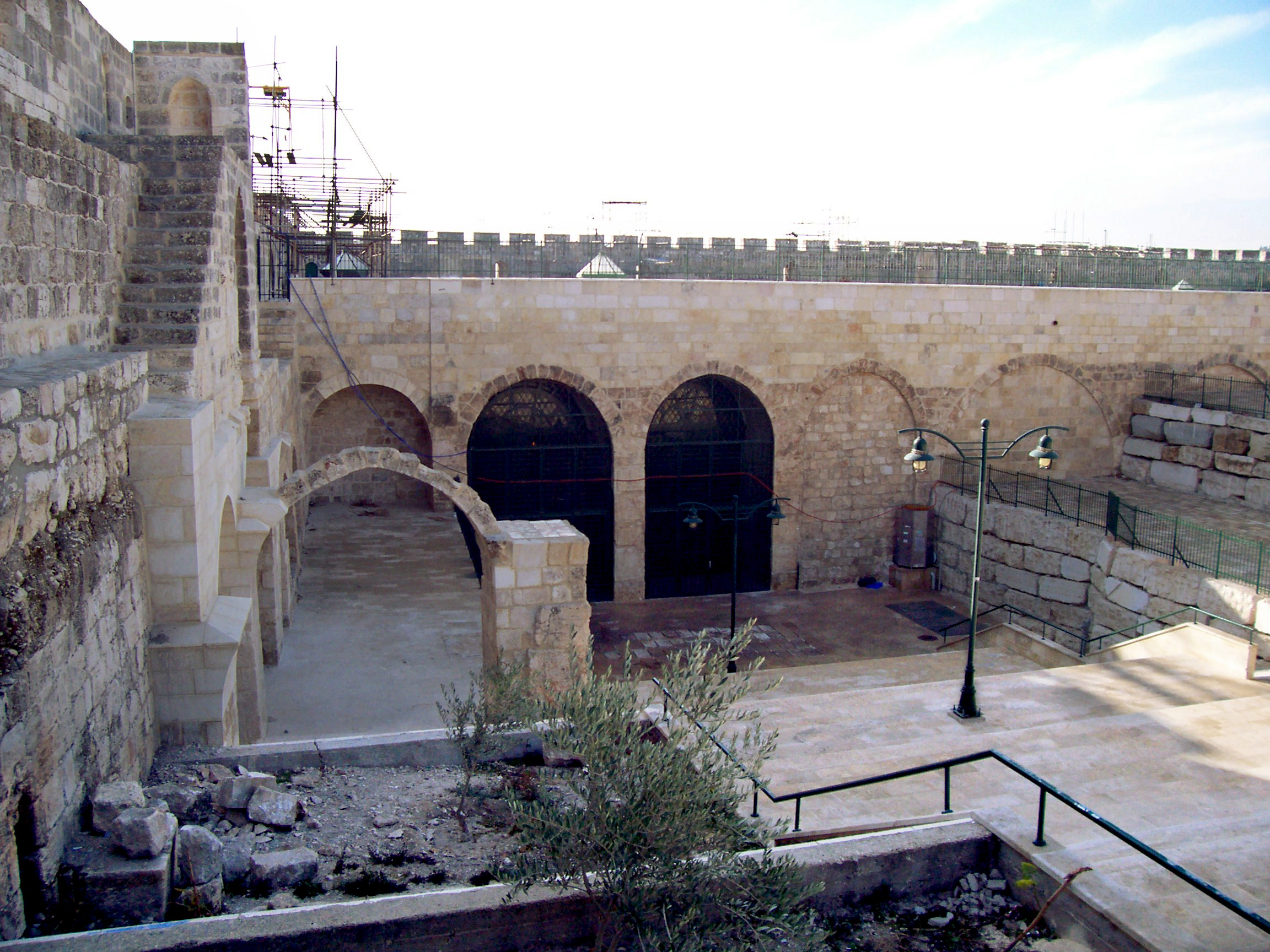 enterance to the Marwan ibn al-Hakam, undergrounded mosque at south-east of temple mount - Solomon's Stables